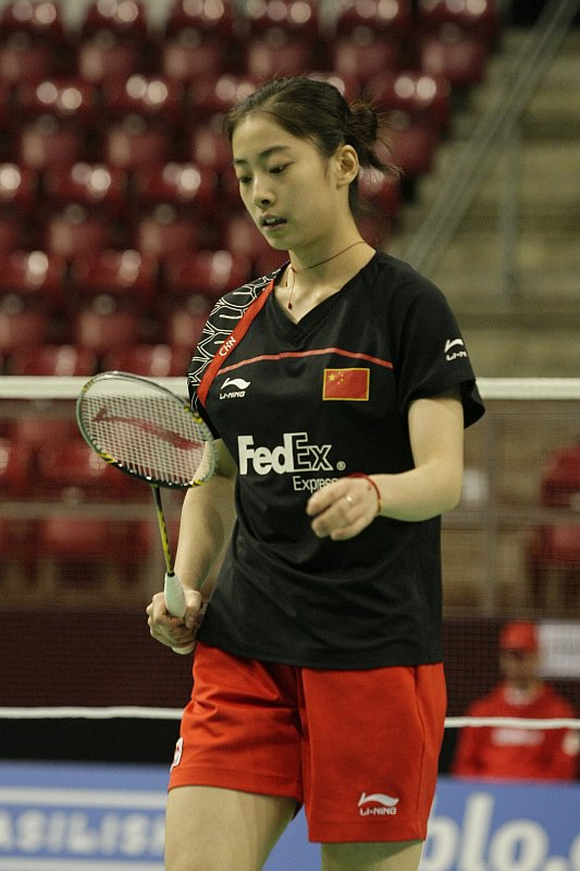 Shixian Wang